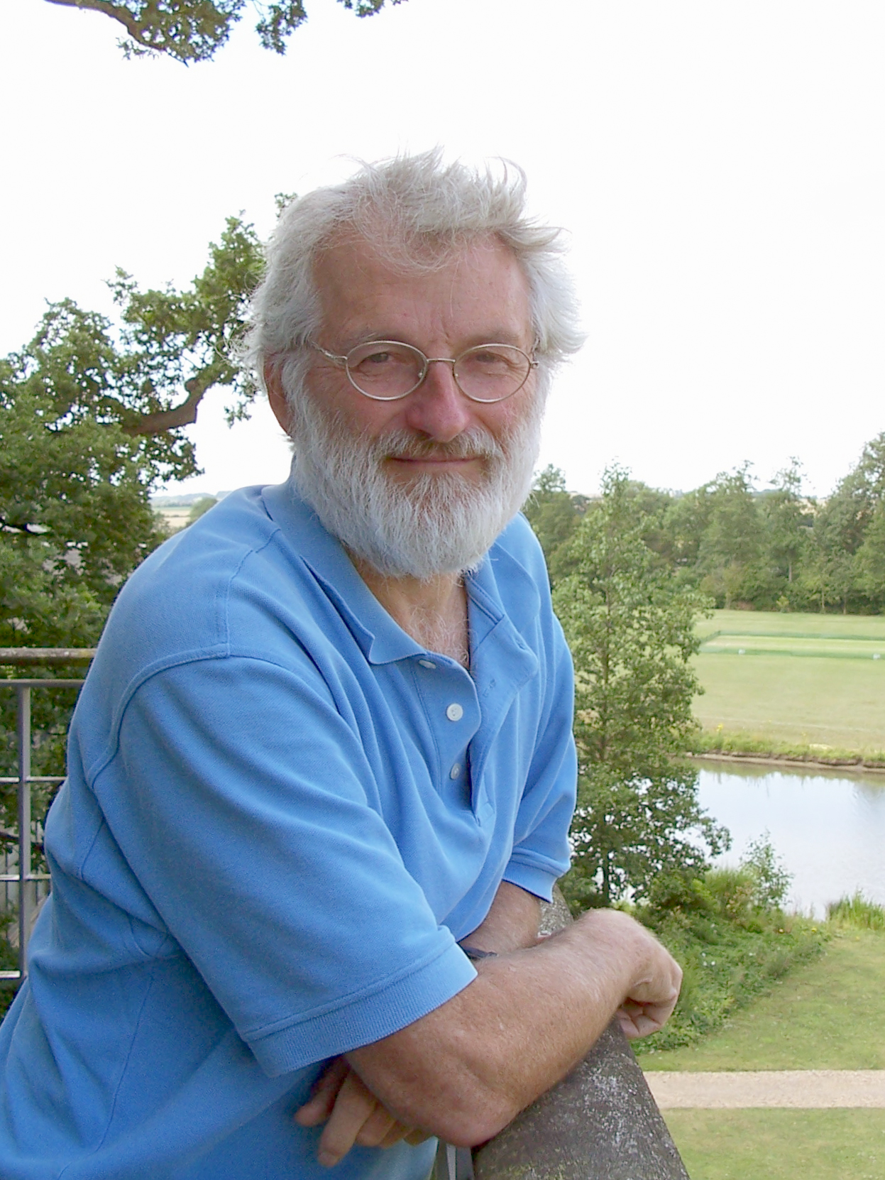 Sir John Sulston